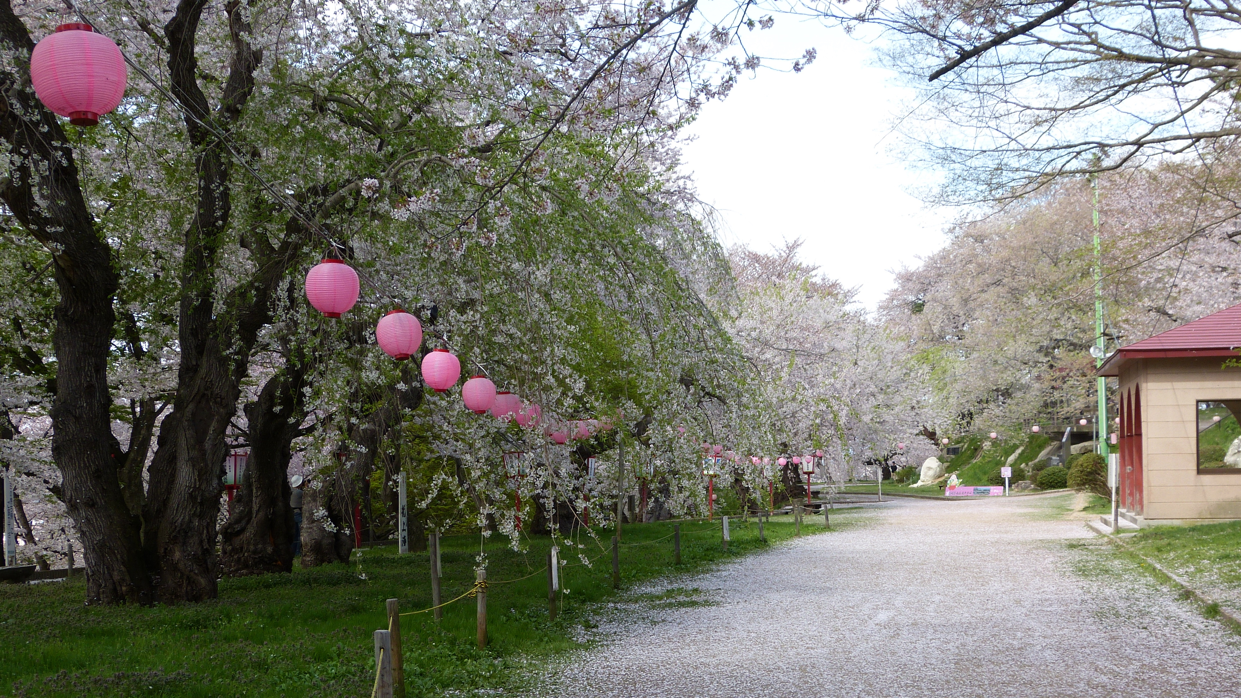 Senbonzakura(cherry trees) in Eboshiyama-park (Japan's Top 100 famous place of cherry trees) ,yamagata prefecture,Japan